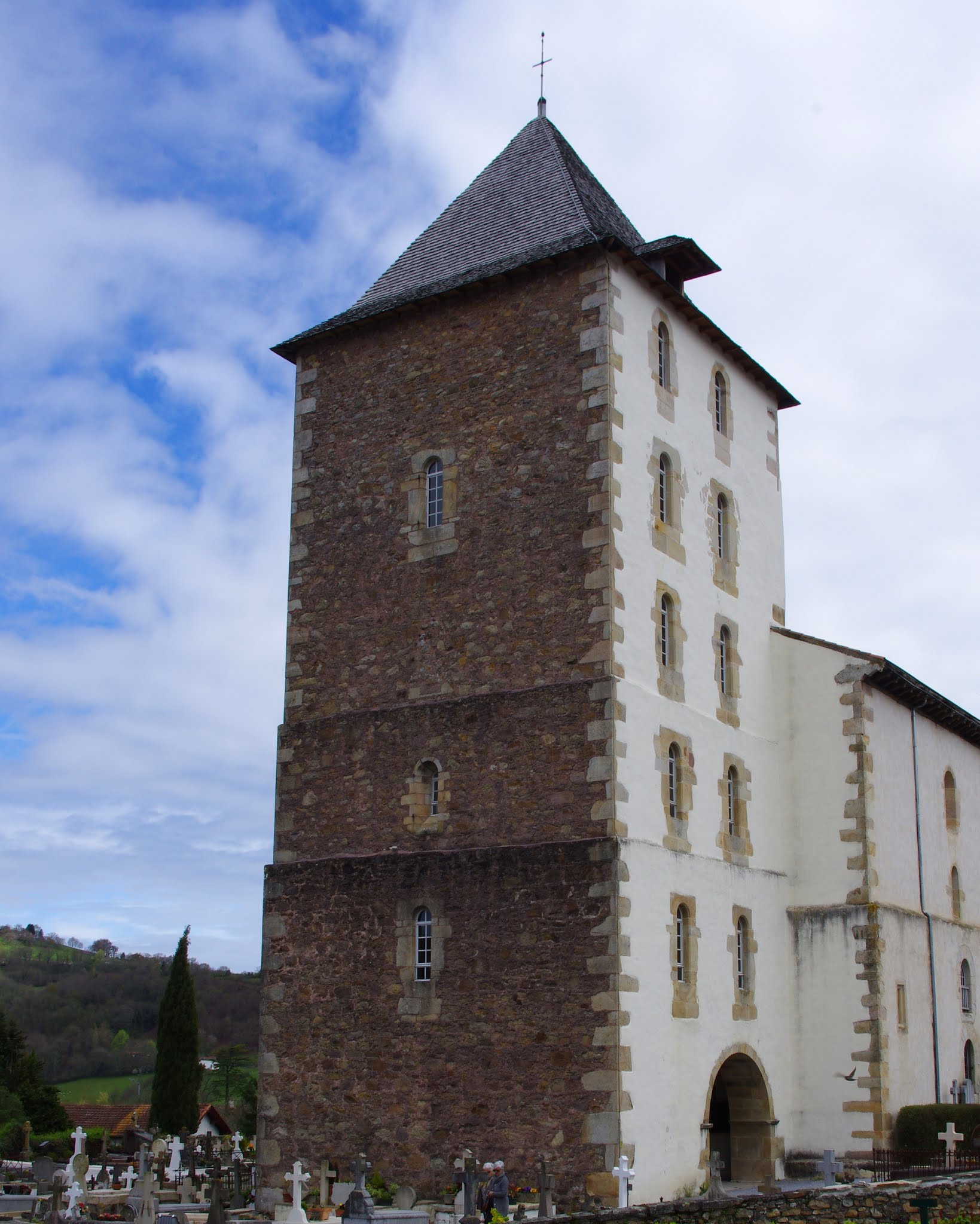 Sara church